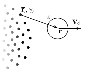 Sketch of diffusive vortex-vortex interaction in method of viscous vortex domains